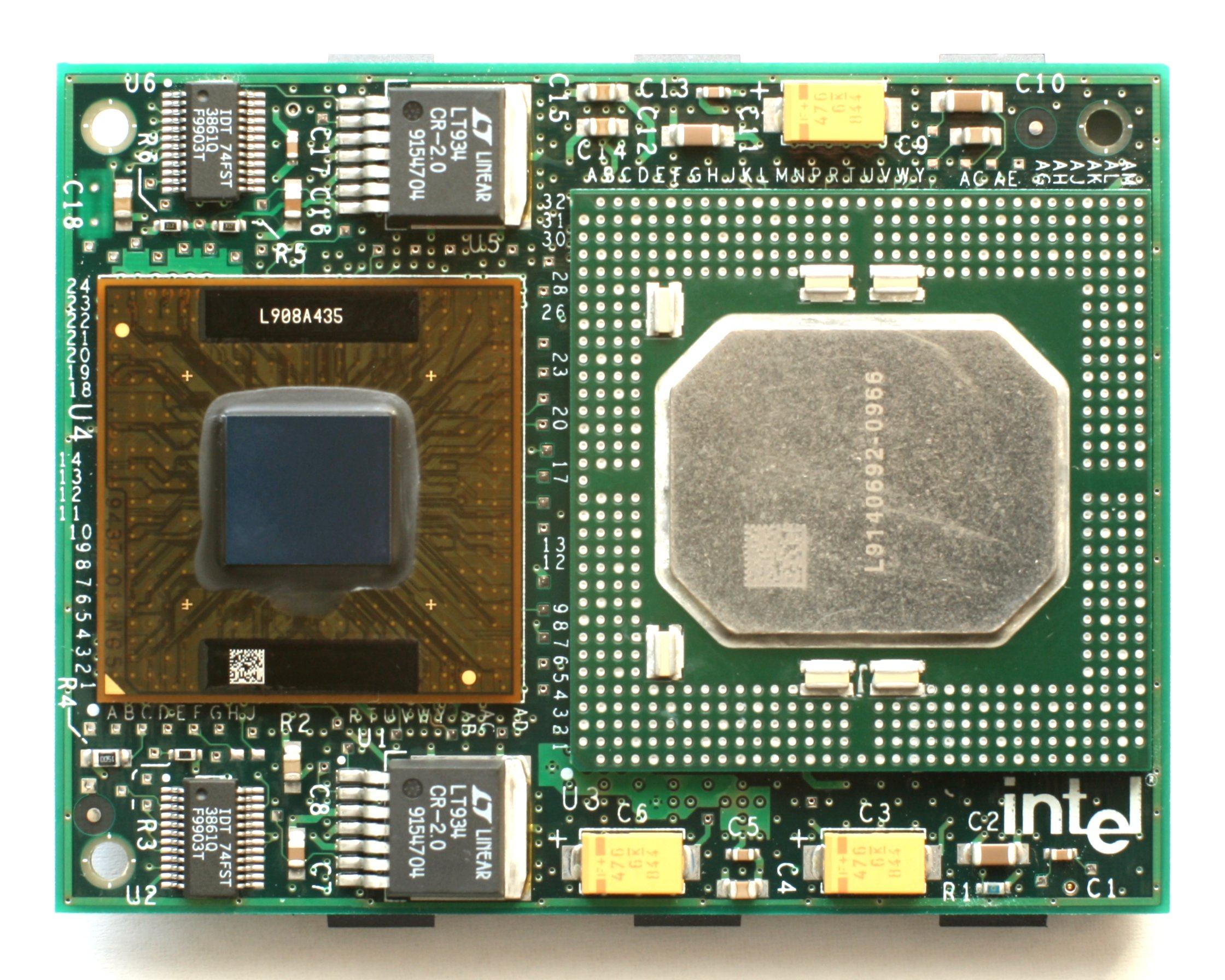 CPU Intel Pentium II Overdrive for Pentium Pro (P6T / Top View).